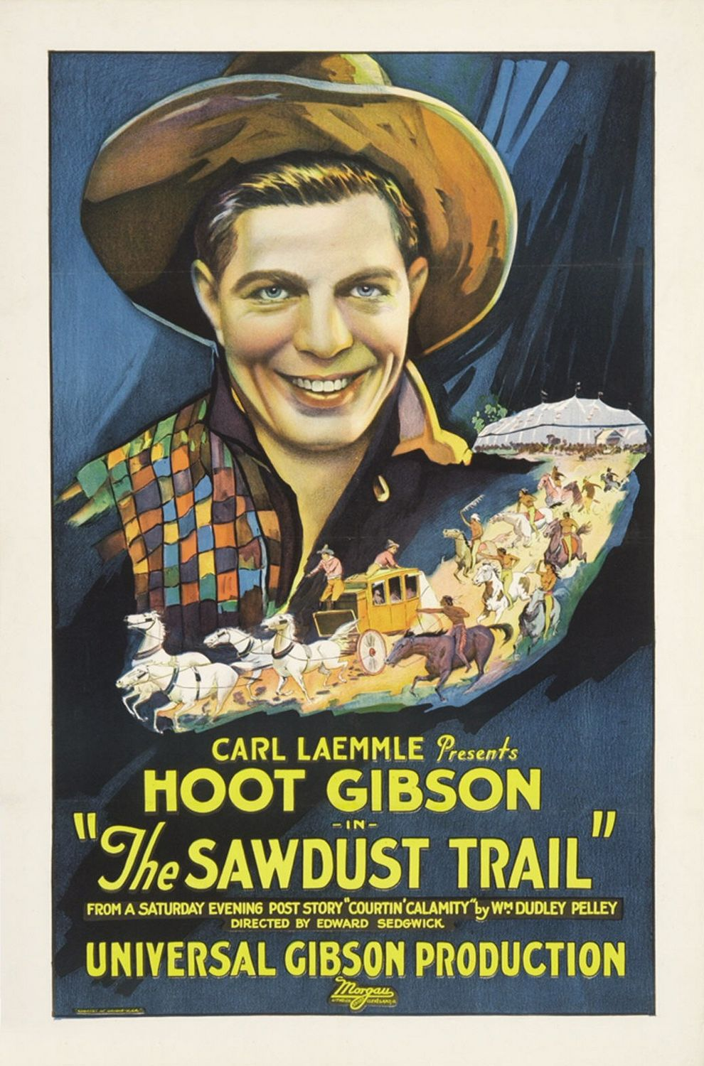 Poster for the American western film The Sawdust Trail (1924). The item has no copyright markings on it as can be seen in the links above. At lower left is Country of Origin USA. At lower middle is a logo for Morgan Litho Company, NY-they printed the poster.